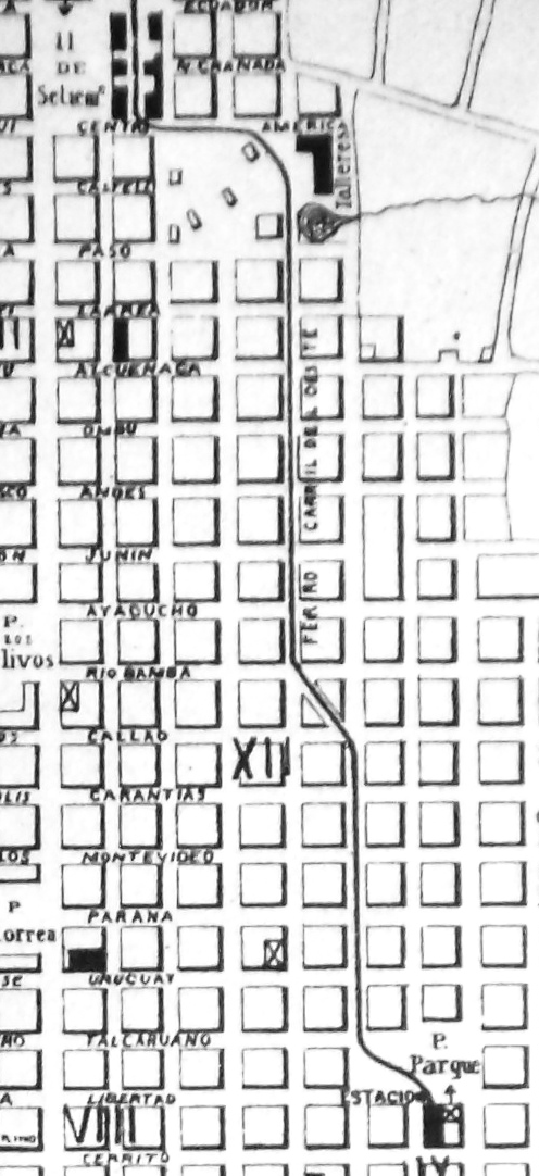 Map of the Del Parque - Once section of BA Western Railway.